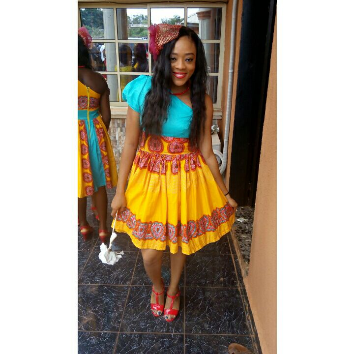 Ankara dress